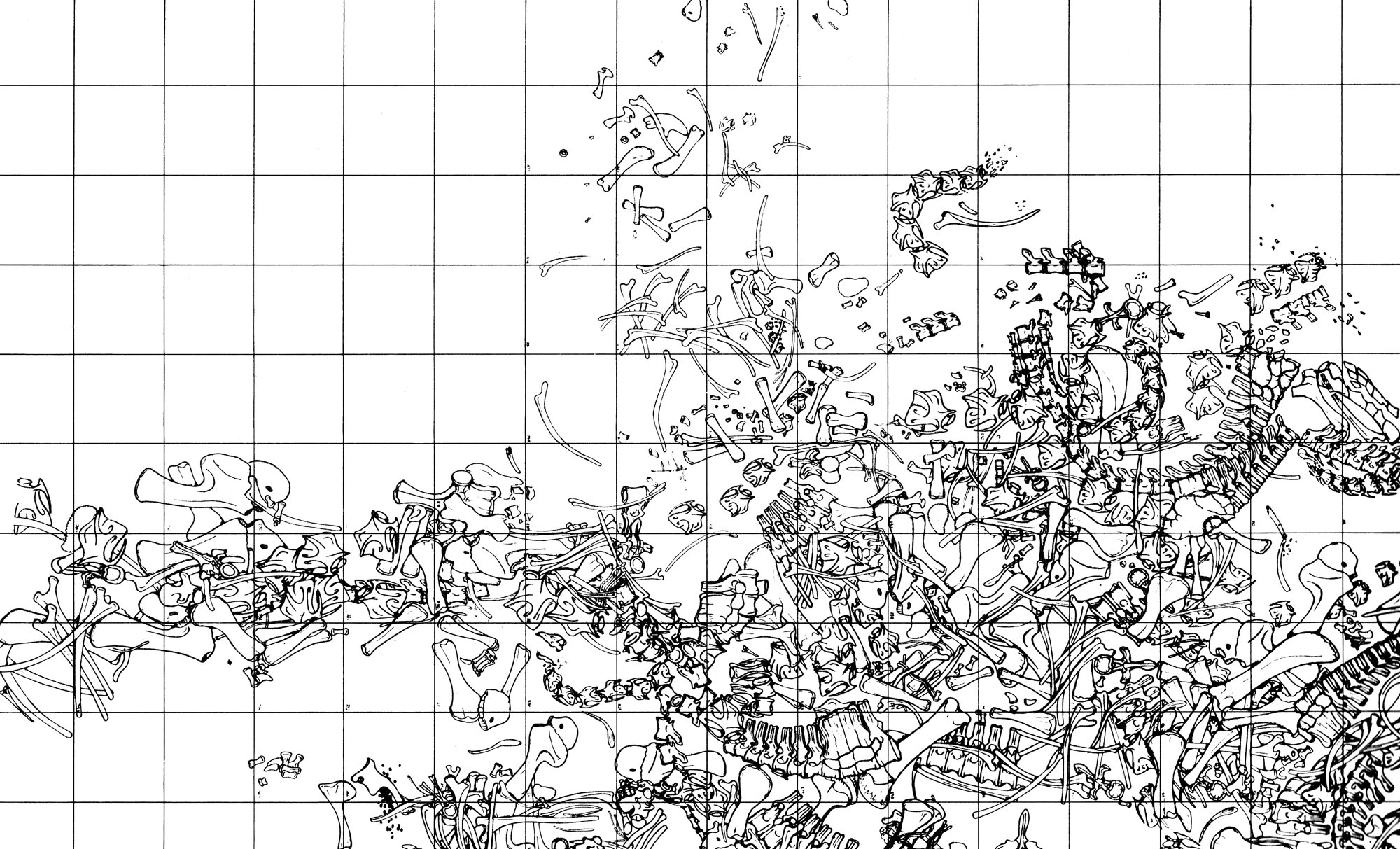 Map of dinosaur bones found in the Howe Quarry by Barnum Brown